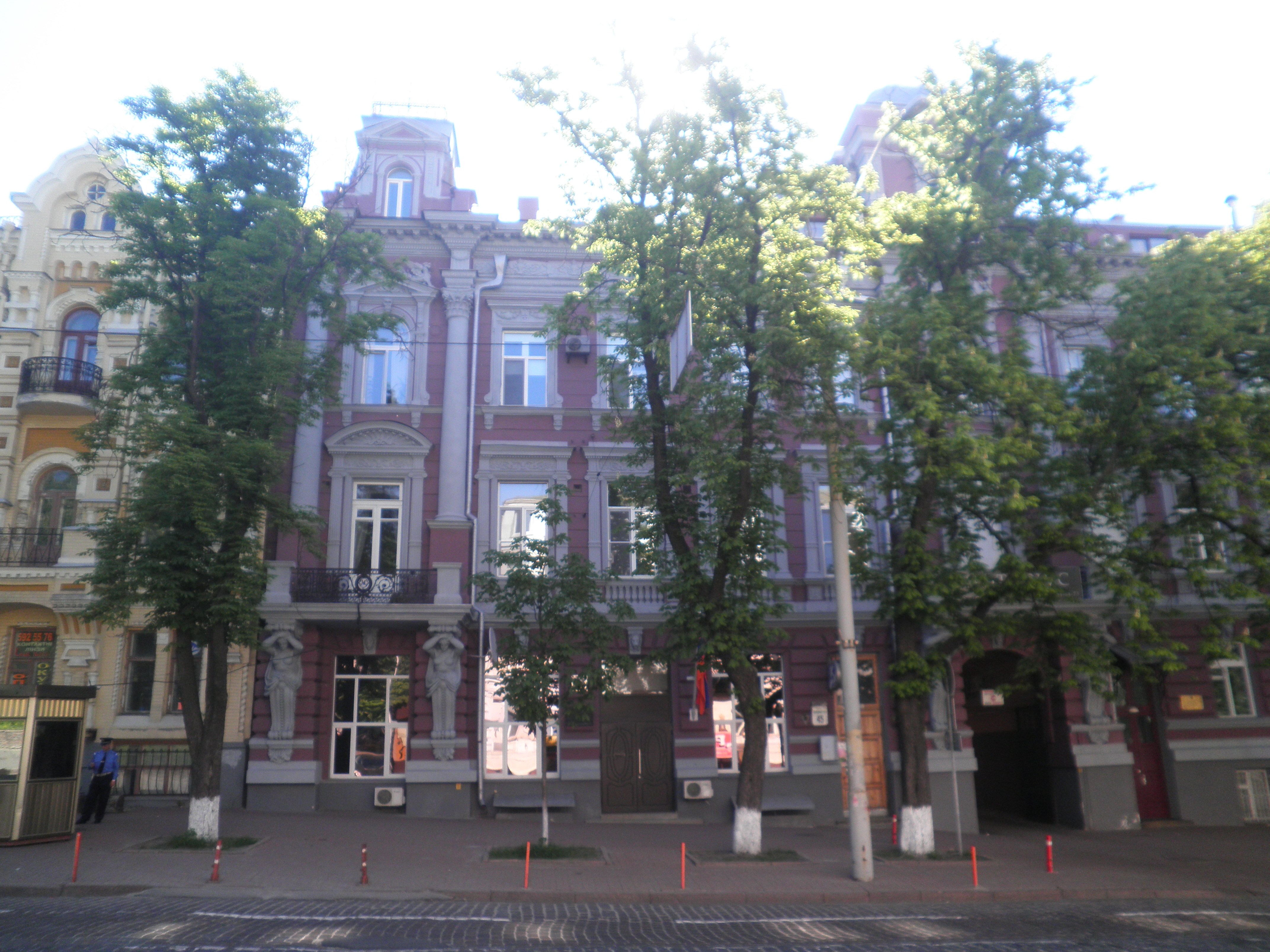 Embassy of Armenia in Kyiv